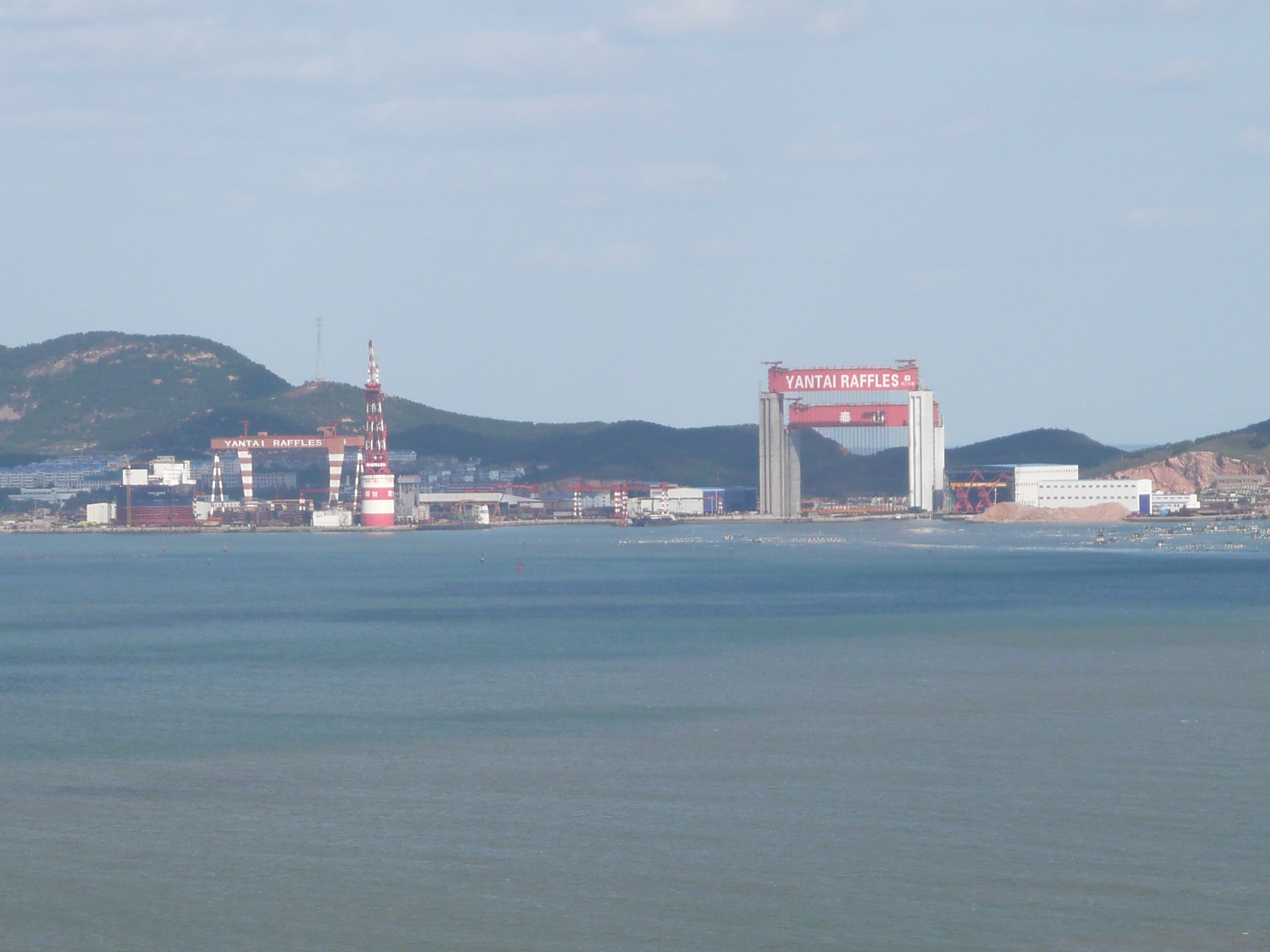 A view of Yantai Raffles Shipyard